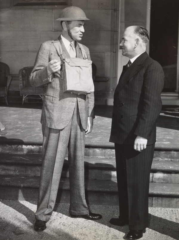 Lord Wakehurst (1895-1970) with Bob Heffron, Minister for National Emergency Services discussing the new wartime air-raid safety measures following the implementation of the National Emergency Act 1941.